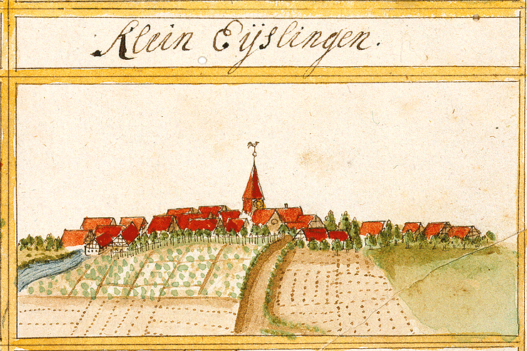 View of Kleineislingen, today part of Eislingen/Fils, from the forest register books created by Andreas Kieser